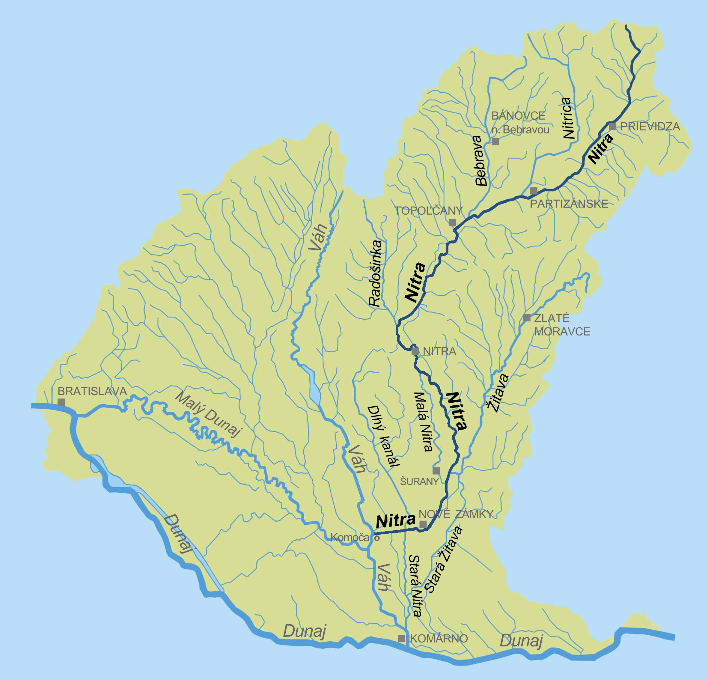 The river Nitra (map)